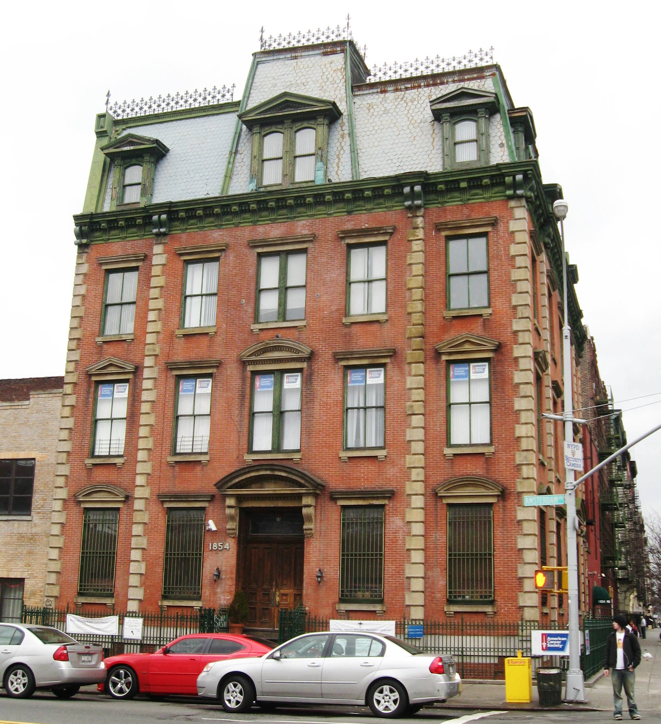 Looking west across Amsterdam Avenue and 152nd Street at the former 30th Precinct House, originally 32d Precinct House, a NYC Landmark,[1] on a cloudy midday.